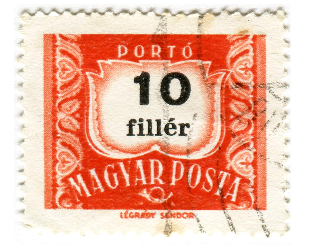 A widely used 10 fillér stamp designed by Sandor Legrady from the first half of the 20th century